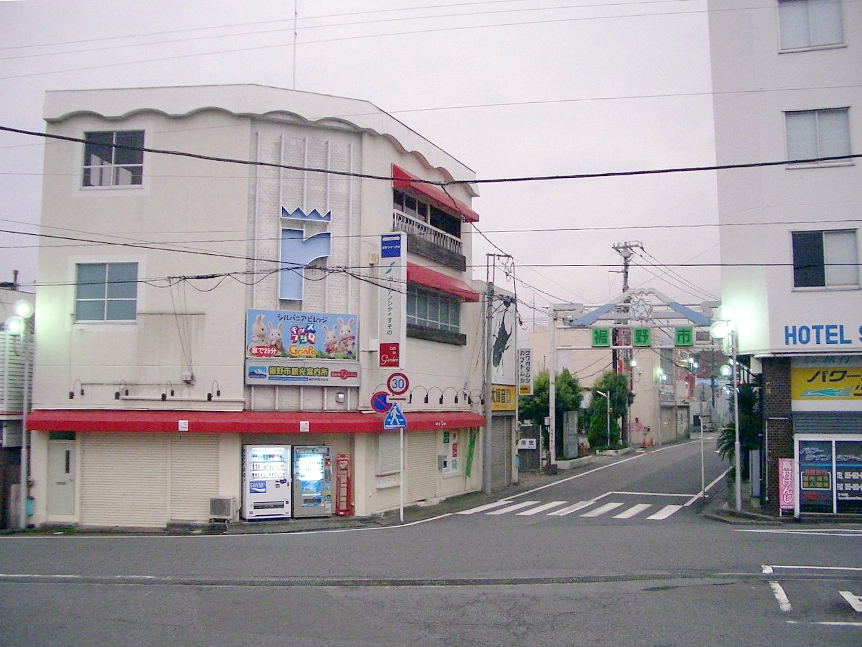 Susono Station Area in Susono, Shizuoka pref., Japan.